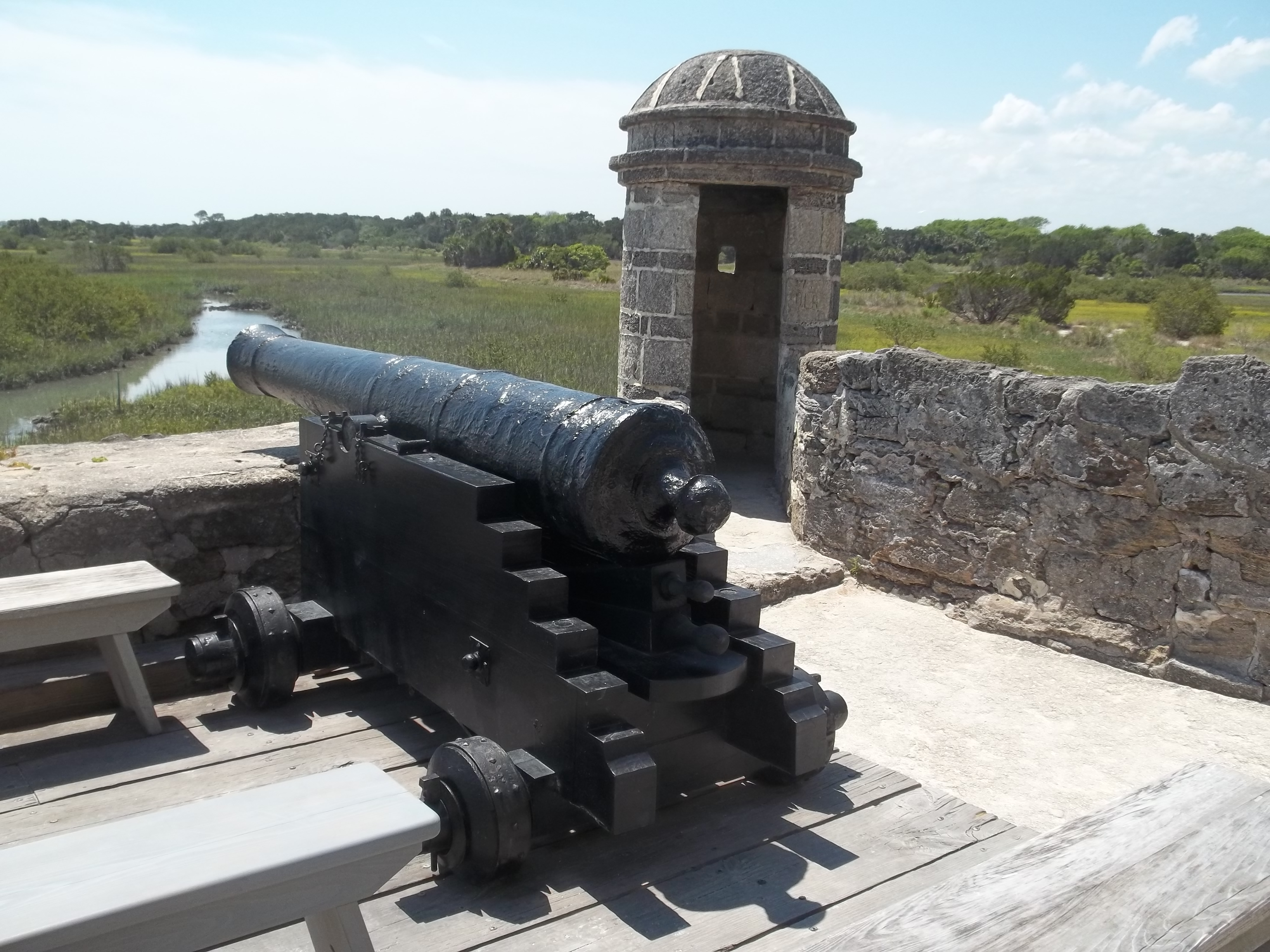 Near Crescent Beach, Florida: Fort Matanzas National Monument: Cannon